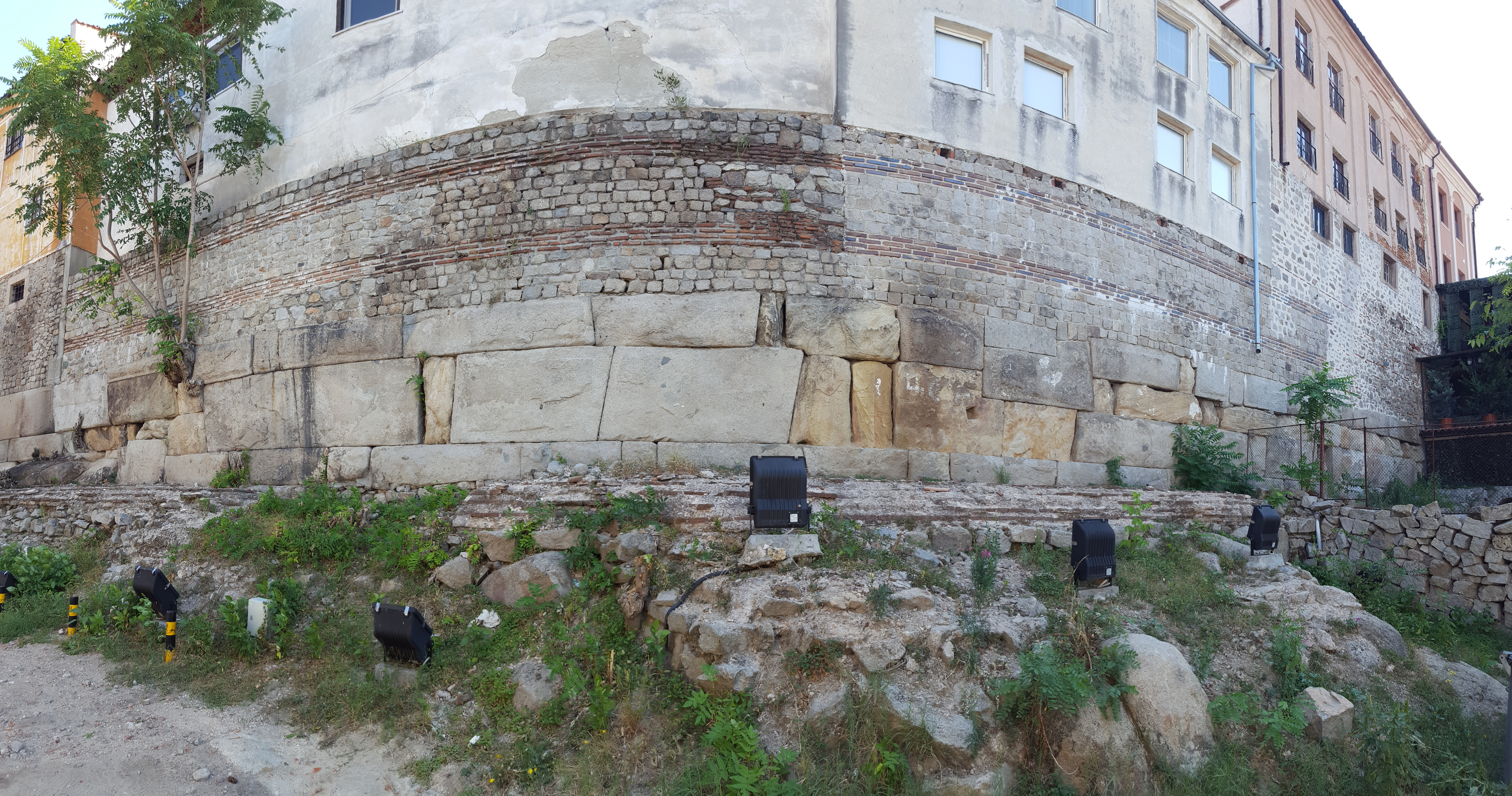 Plovdiv walls